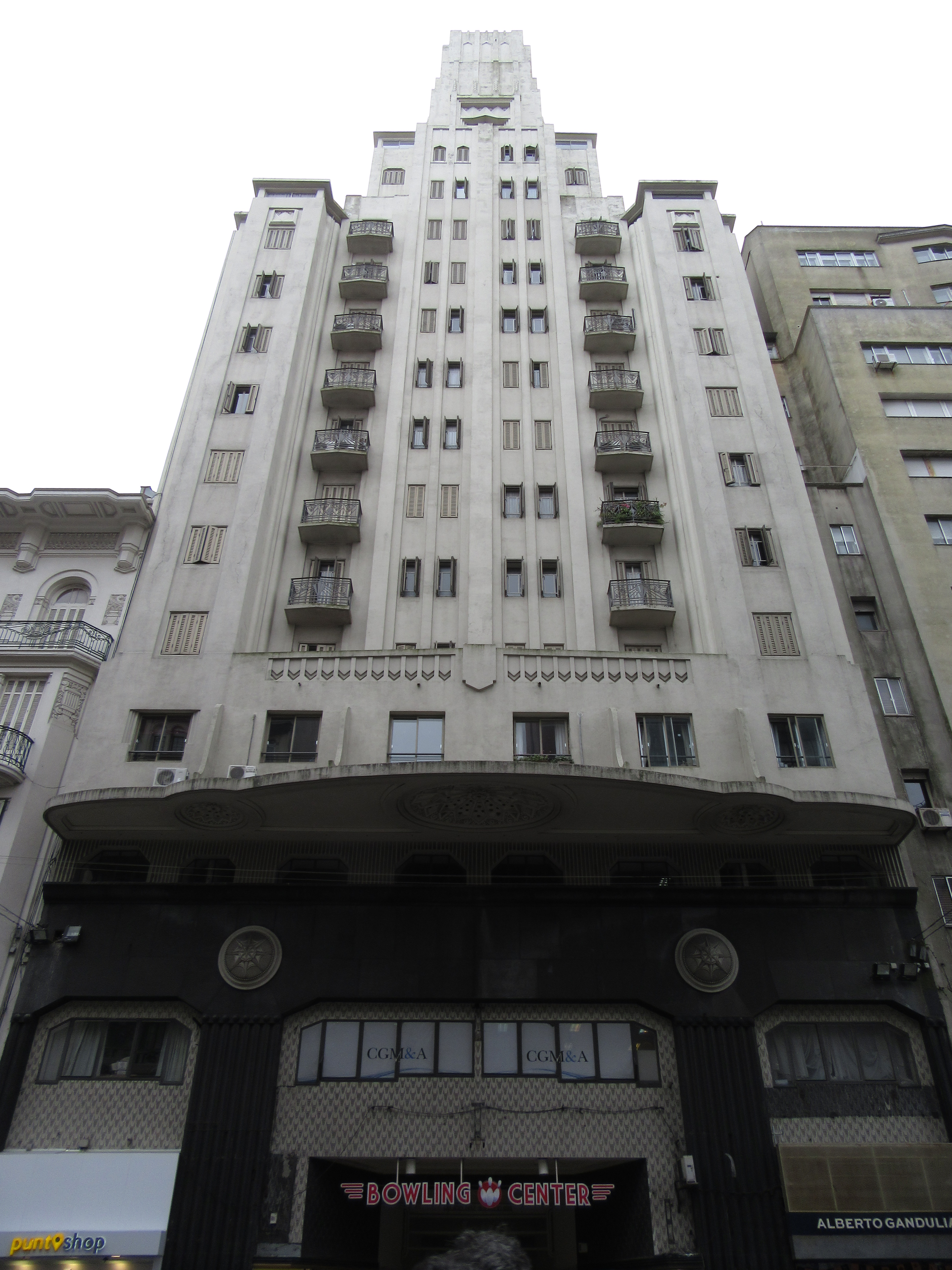 Montevideo